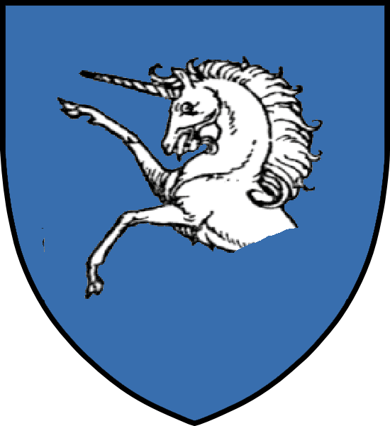 Coat of arms for danish noble family Skram